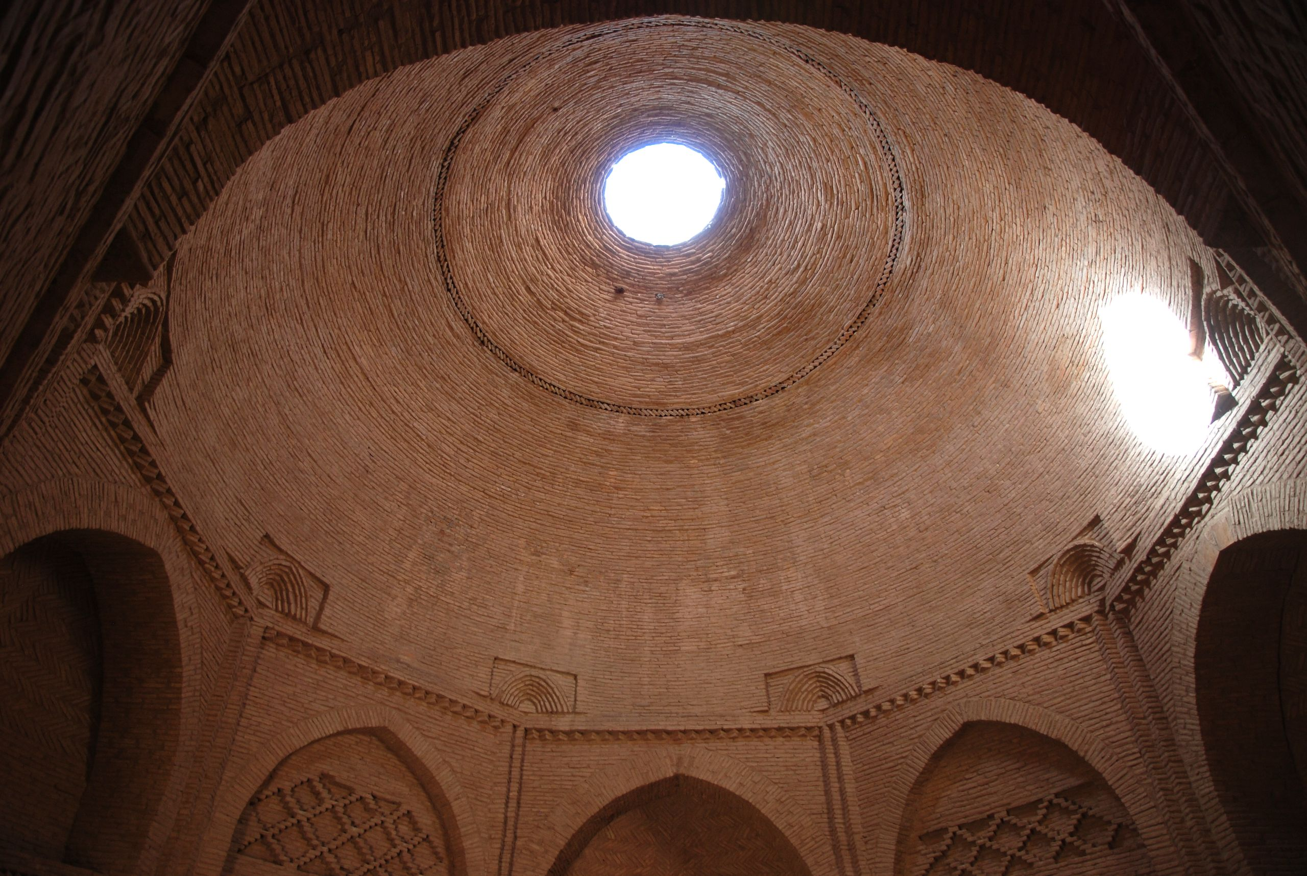 Khoja Mahshad, near Shahrituz, eastern dome